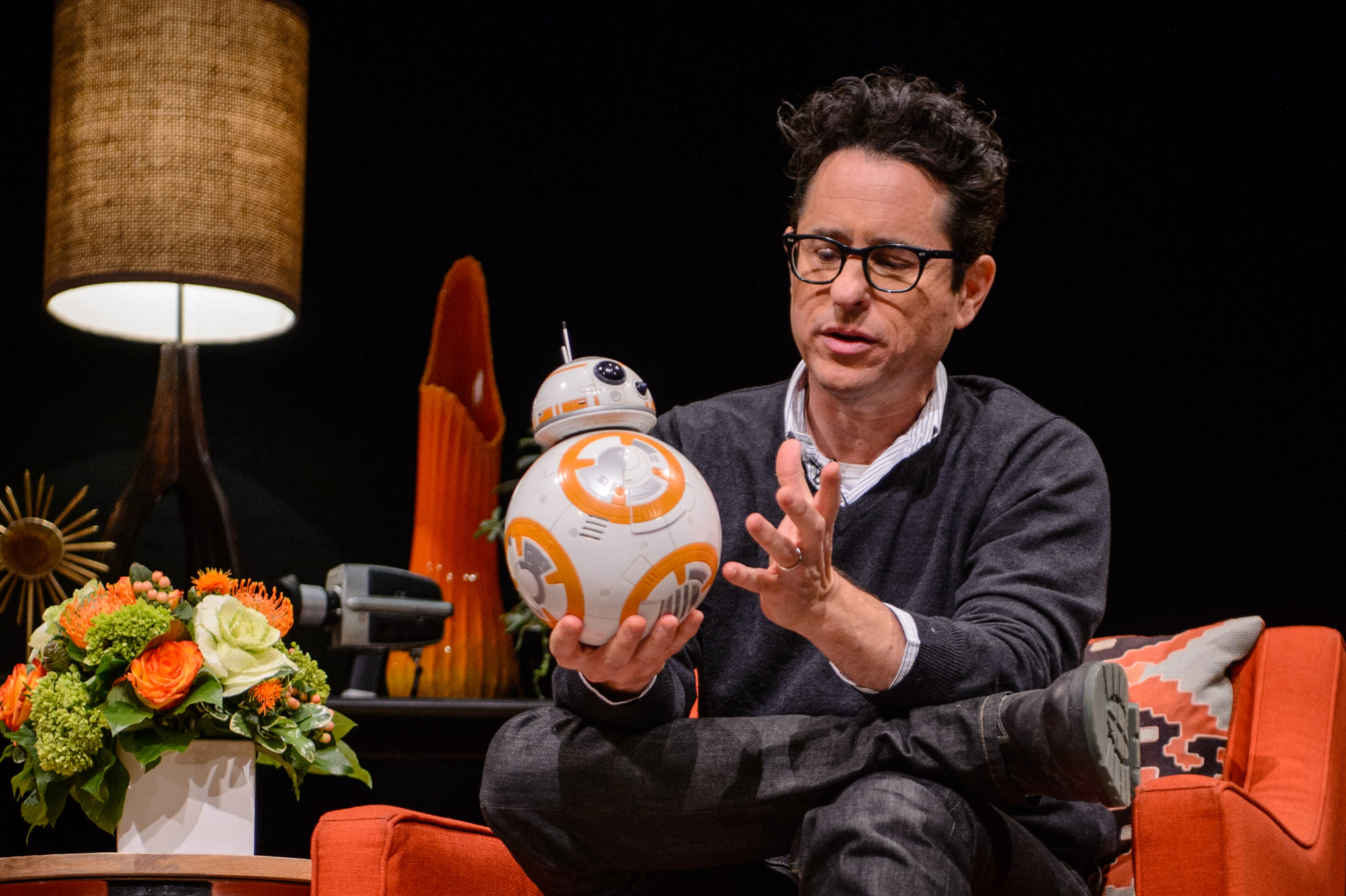 photo by “Neil Grabowsky / Montclair Film Festival”